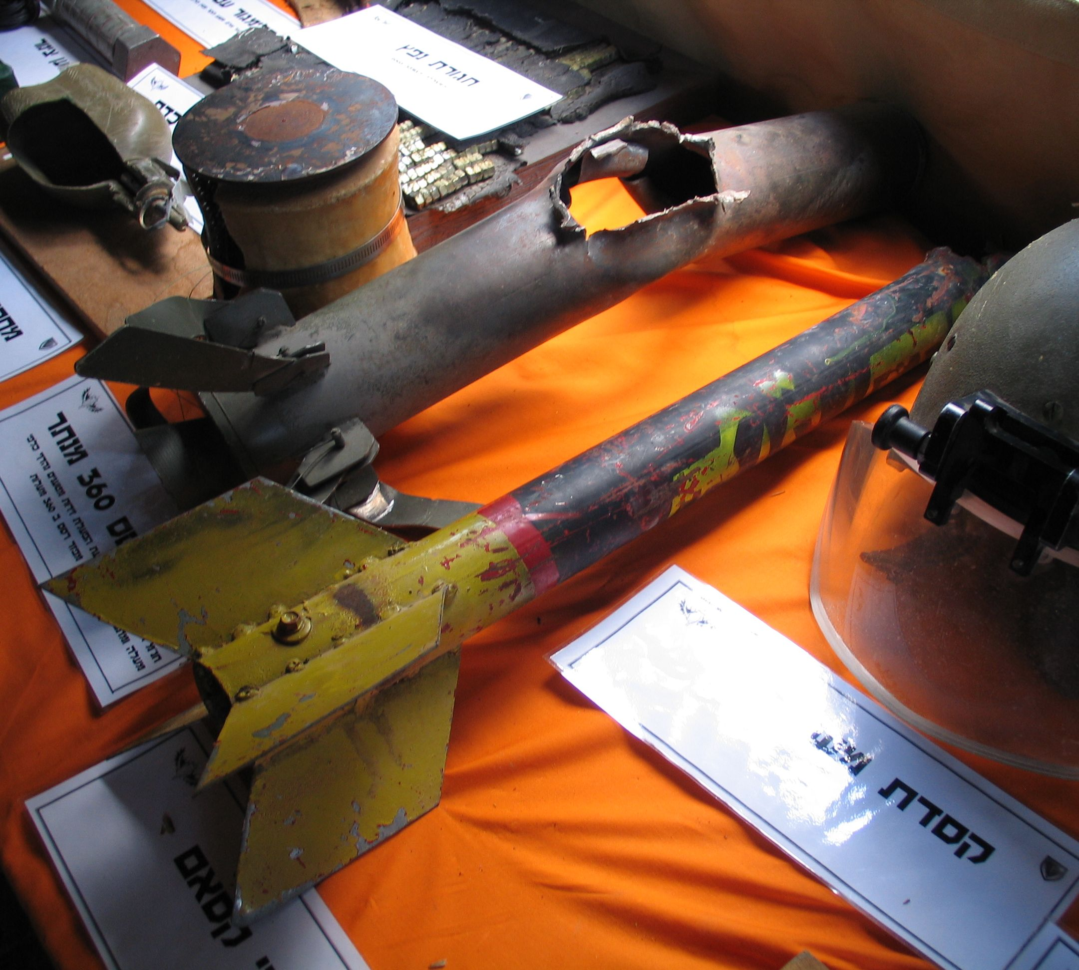 Remnants of Kasam rockets. Independence Day exhibition at Yad la-Shiryon Museum, Latrun, Israel.